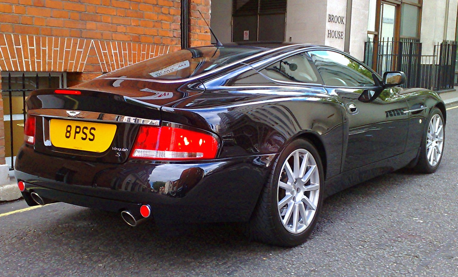 Aston Martin Vanquish S